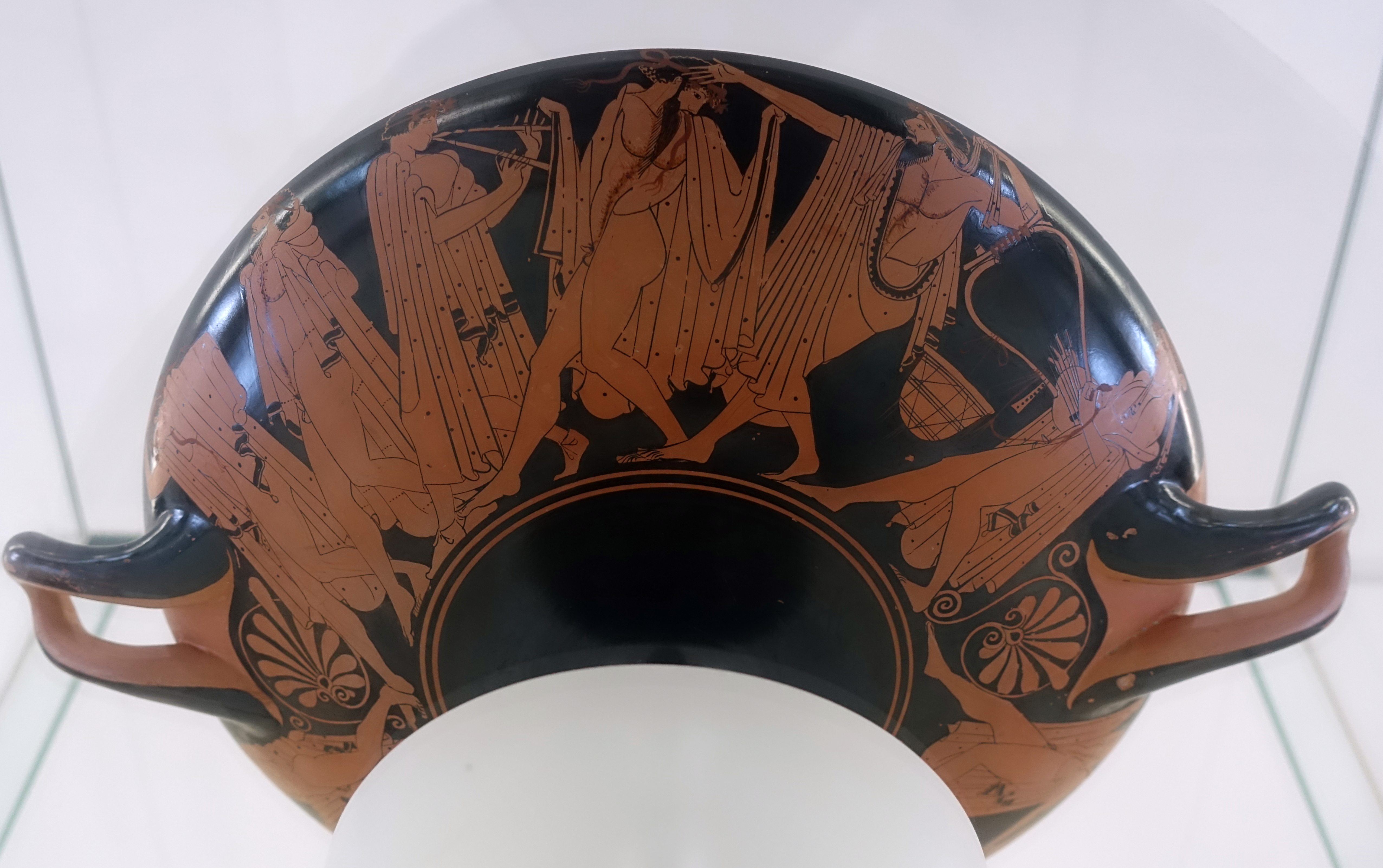 Exhibit in the Martin von Wagner Museum - Würzburg, Germany.